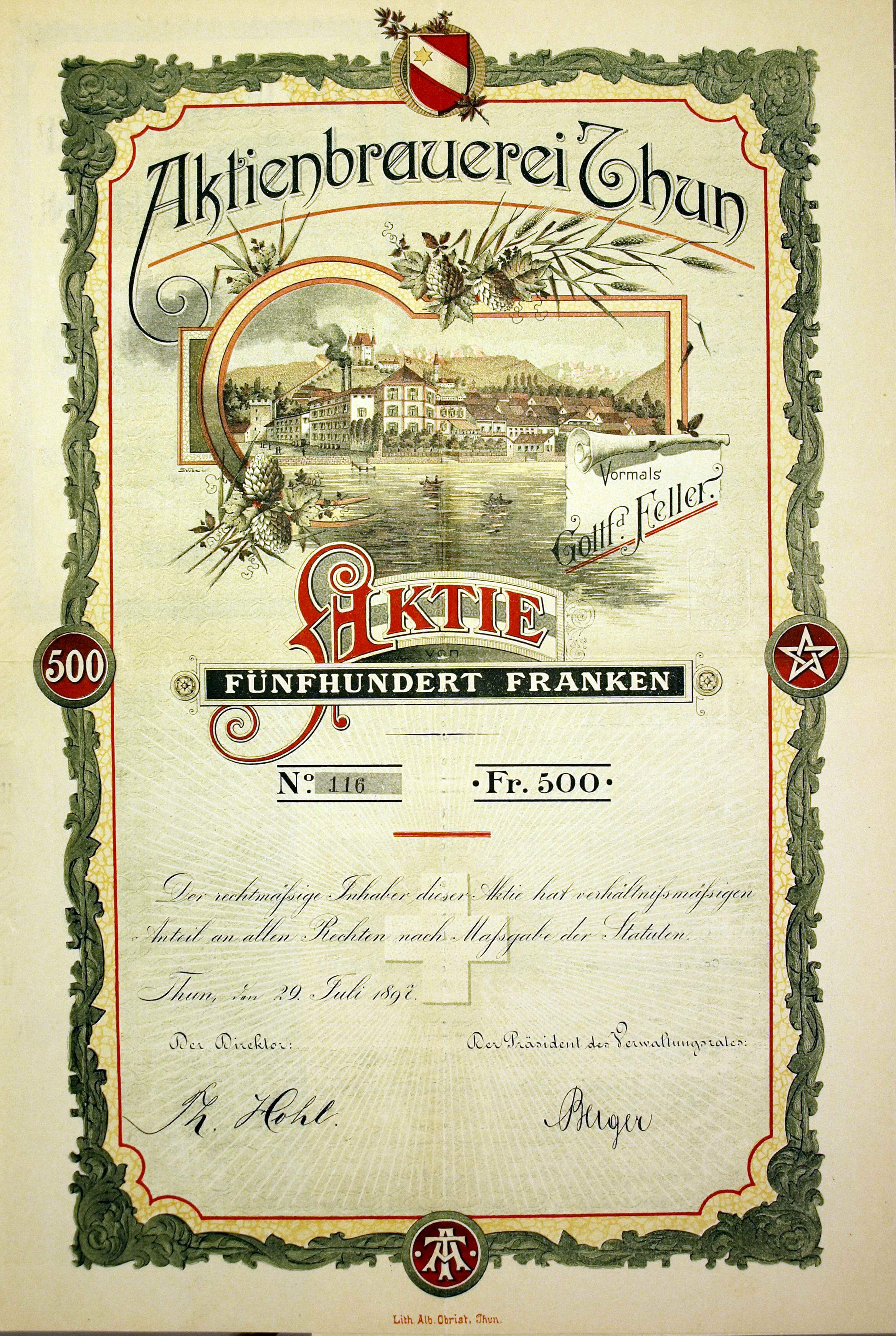 Share of the Aktienbrauerei Thun, issued 29. July 1897